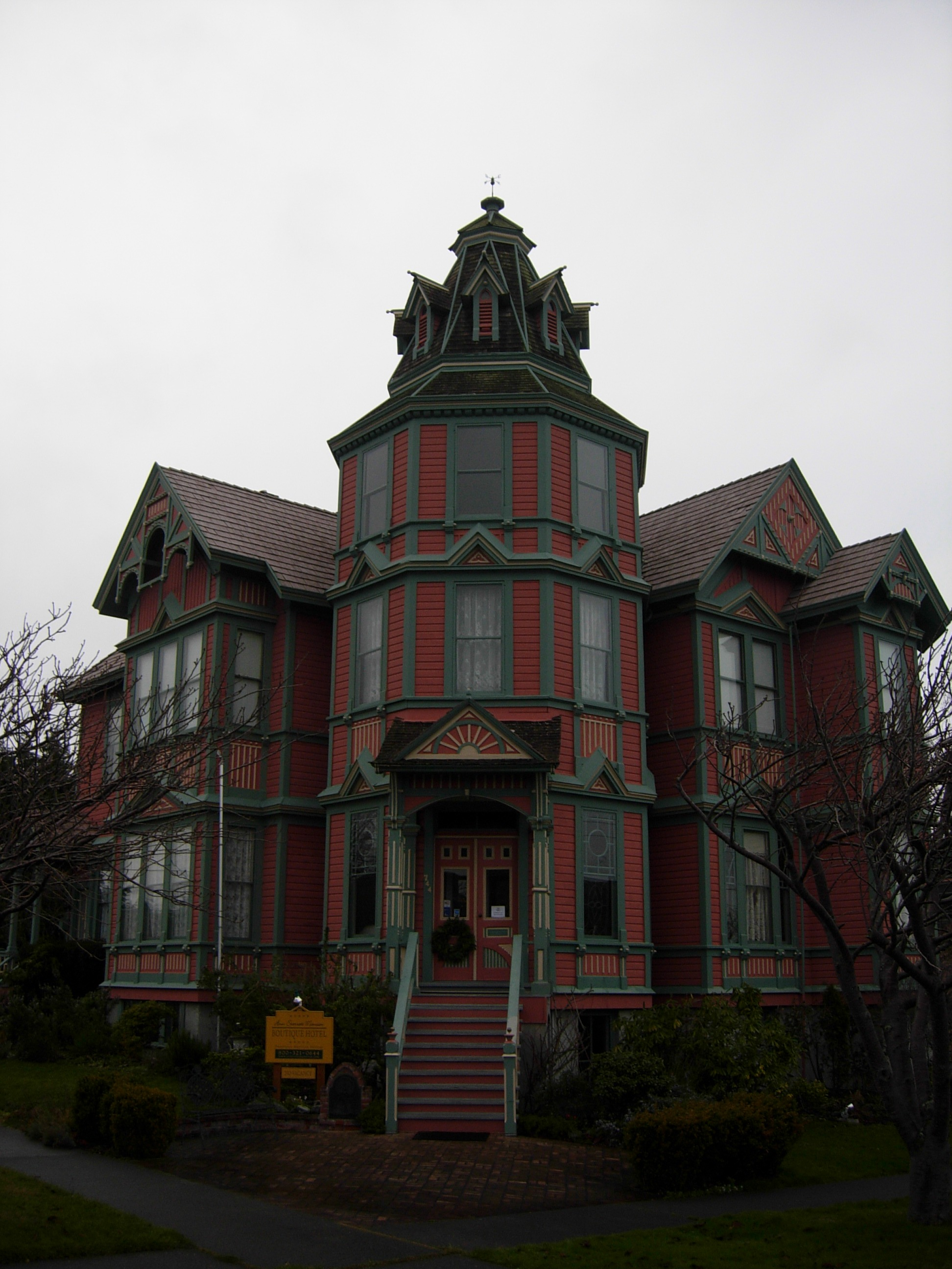 The Starrett House, a Registered Historic Place in Port Townsend, Washington